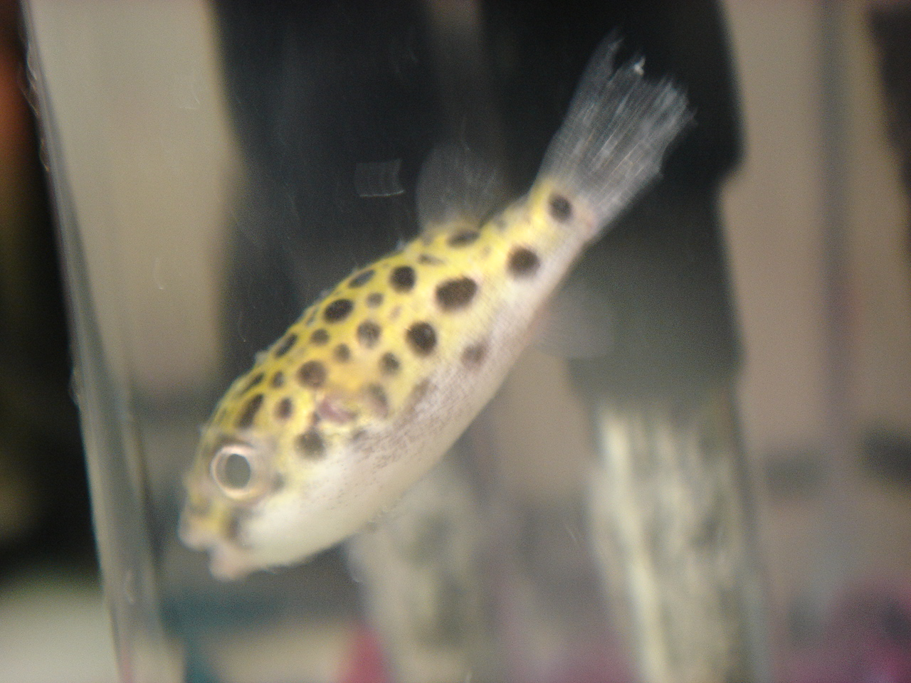 For midorifugu1-sick